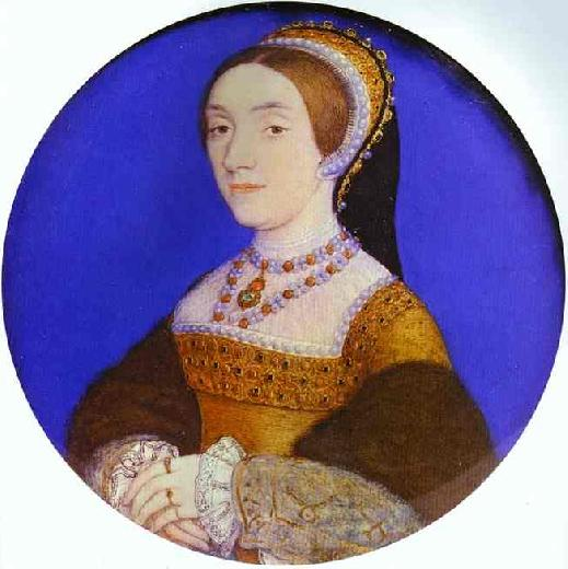 Recently the identity of the model has been questioned, but despite that most historians still agree that the miniature represents Catherine Howard, fifth wife of Henry VIII of England, in a miniature.